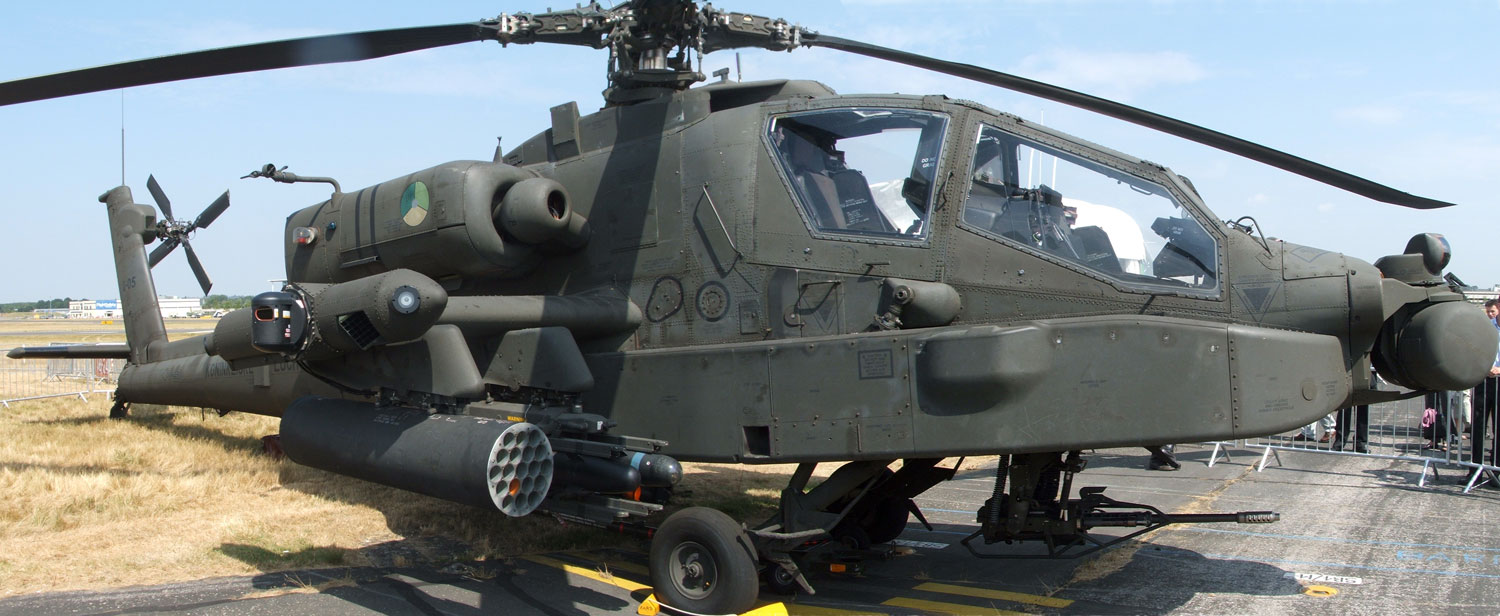 Royal Netherlands Air Force Apache attack helicopter, static display, Farnborough, July 2006. On the wing it shows DIRCOM as part of the AMASE system